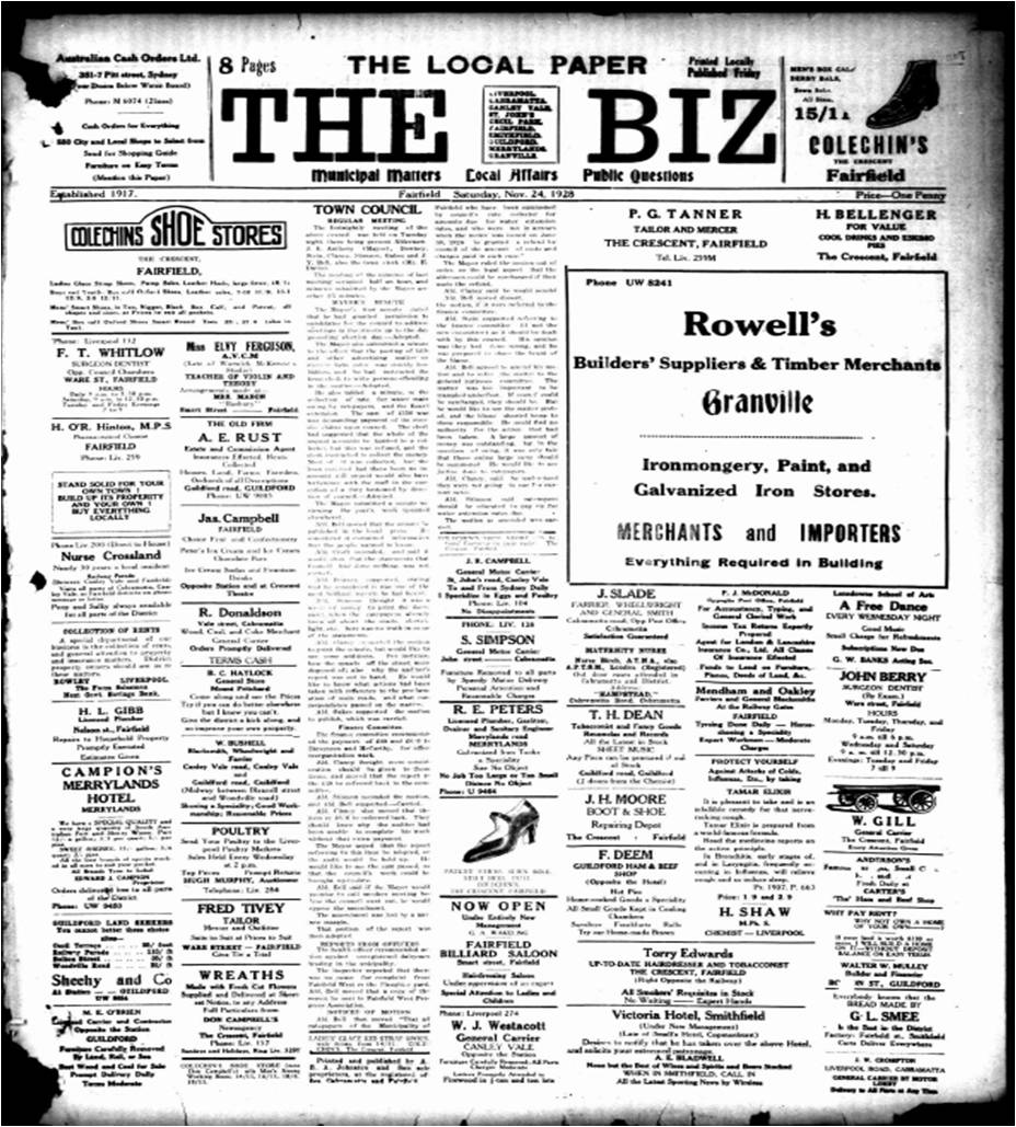 Coverpage of a historic newspaper from New South Wales, Australia.